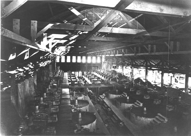 Gold amalgamation tanks in the California Pan Mill, Carson River, Virginia City, Nevada, USA. Circa 1900.